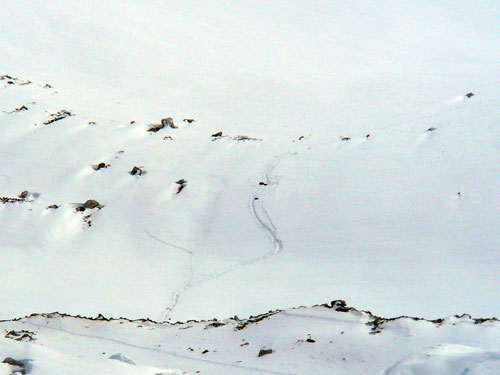 Nangpa La killings.